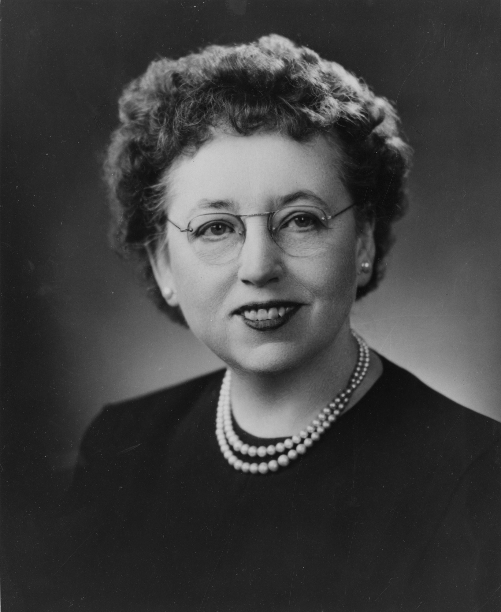 Pearl McIver (1893-1976) Subject: McIver, Pearl, United States Public Health Service, United States Dept. of Health, Education, and Welfare Office of the Secretary Type: Black-and-white photographs Date: 1955 Topic: Nursing, Women scientists Local number: SIA Acc. 90-105 [SIA2008-5699] Summary: Pearl McIver (1893-1976) was the first United States Public Health Service consultant on nursing administration and served as chief of public health nursing services at the U.S. Department of Health, Education, and Welfare. She received the Albert and Mary Lasker Foundation Public Service Award in 1955 Cite as: Acc. 90-105 - Science Service, Records, 1920s-1970s, Smithsonian Institution Archivess